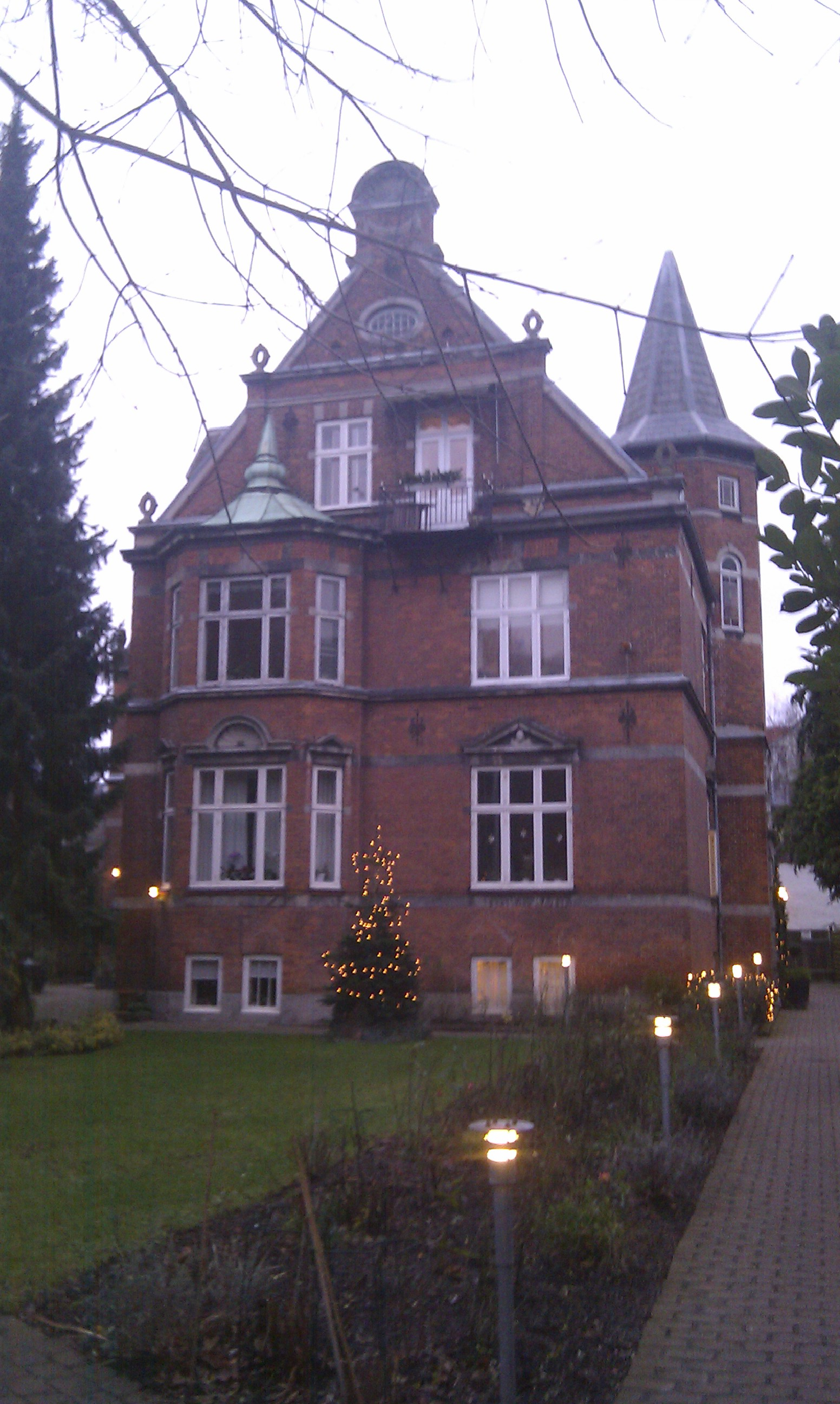 Nursing home "Lotte" in Copenhagen